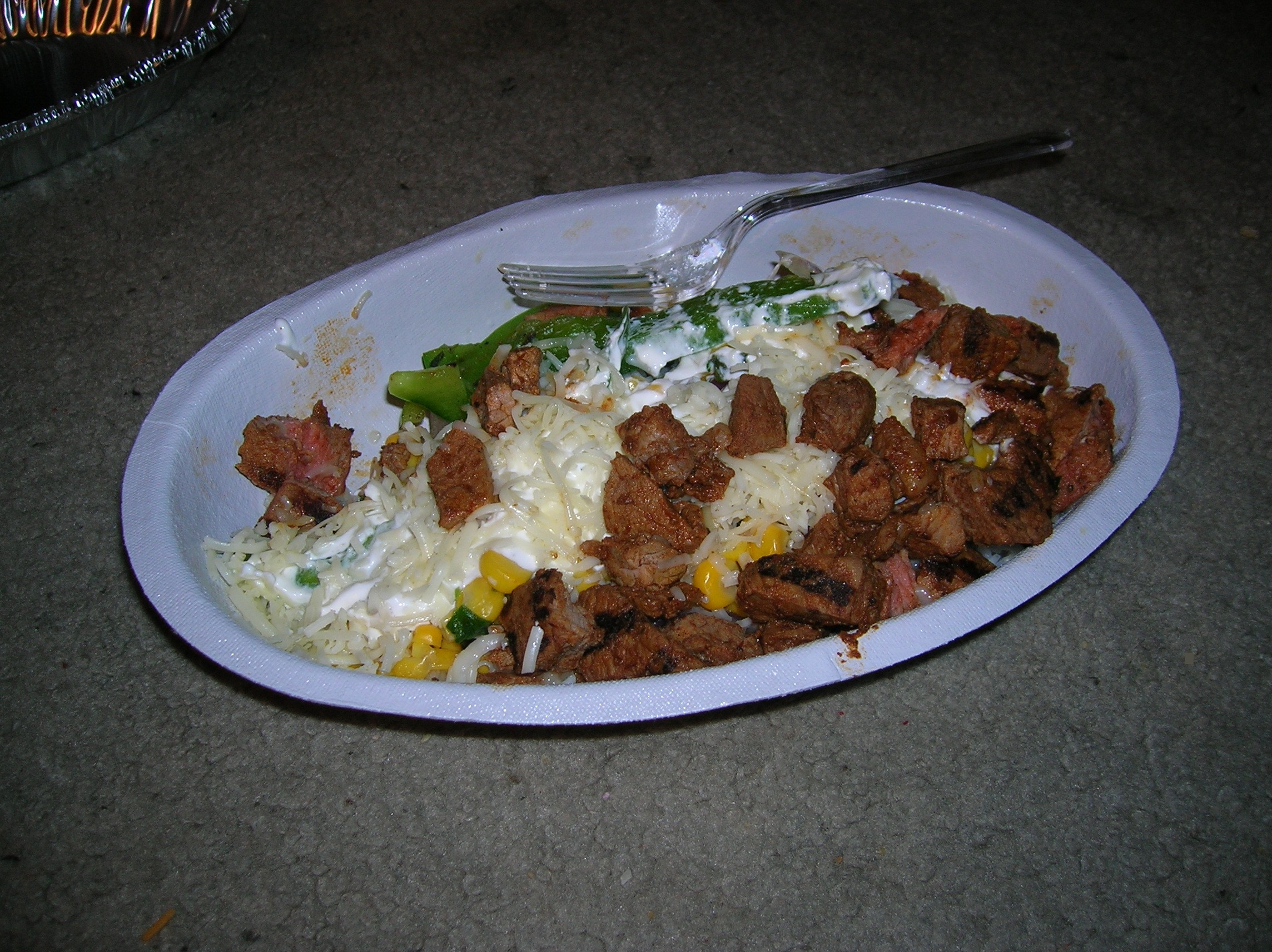 A Burrito Bol from Chipotle Mexican Grill.